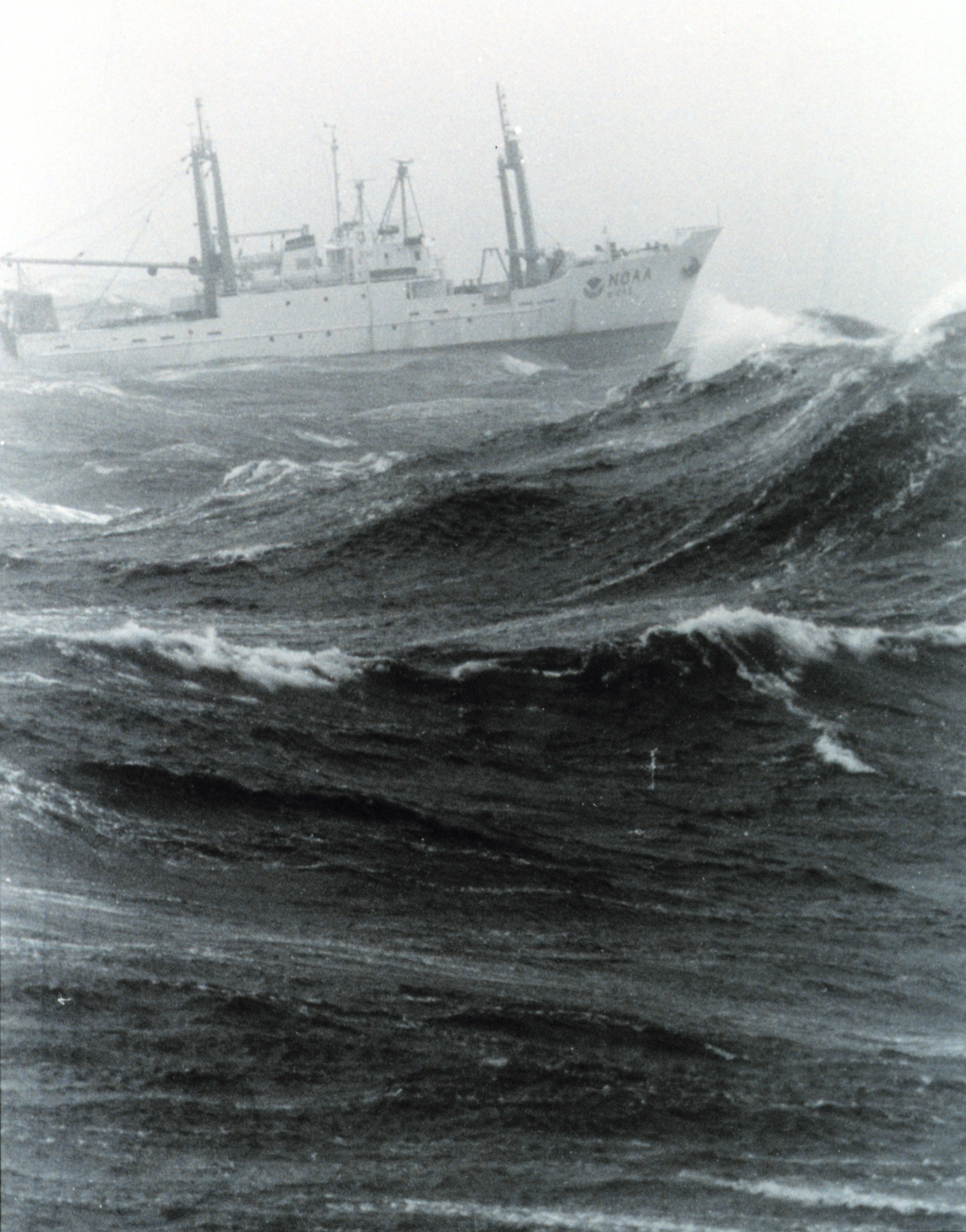 NOAA Ship DELAWARE II in basic crummy weather on Georges Bank